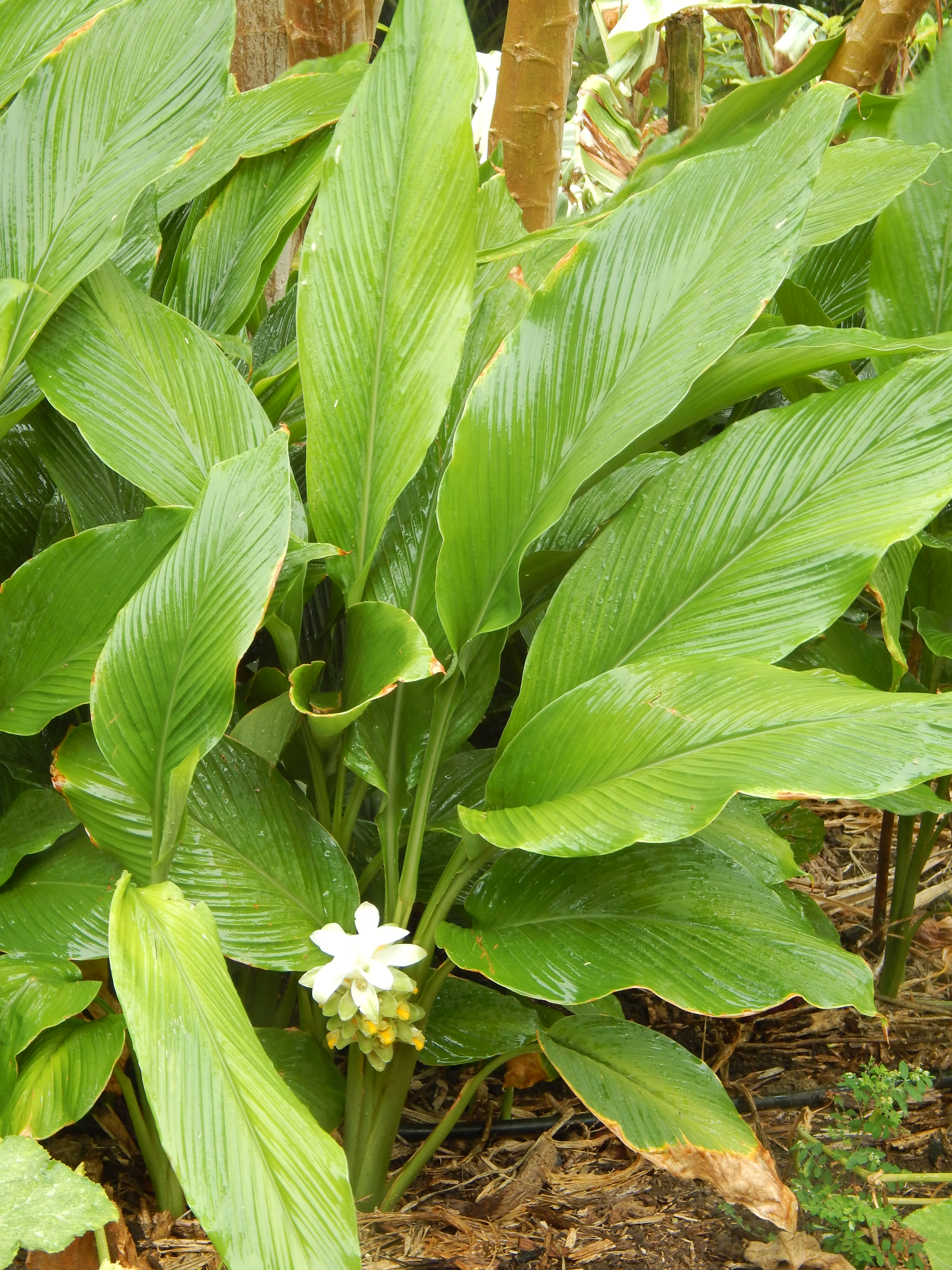 Curcuma longa (Turmeric, olena) Flowering habit at Pali o Waipio Huelo, Maui, Hawaii. September 25, 2014 #140925-1977 Image Use Policy Also known as Curcuma domestica.